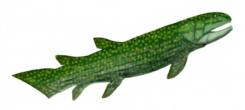 Gogonasus andrewsae from Upper Devonian of Australia, pencil drawing and digital coloring